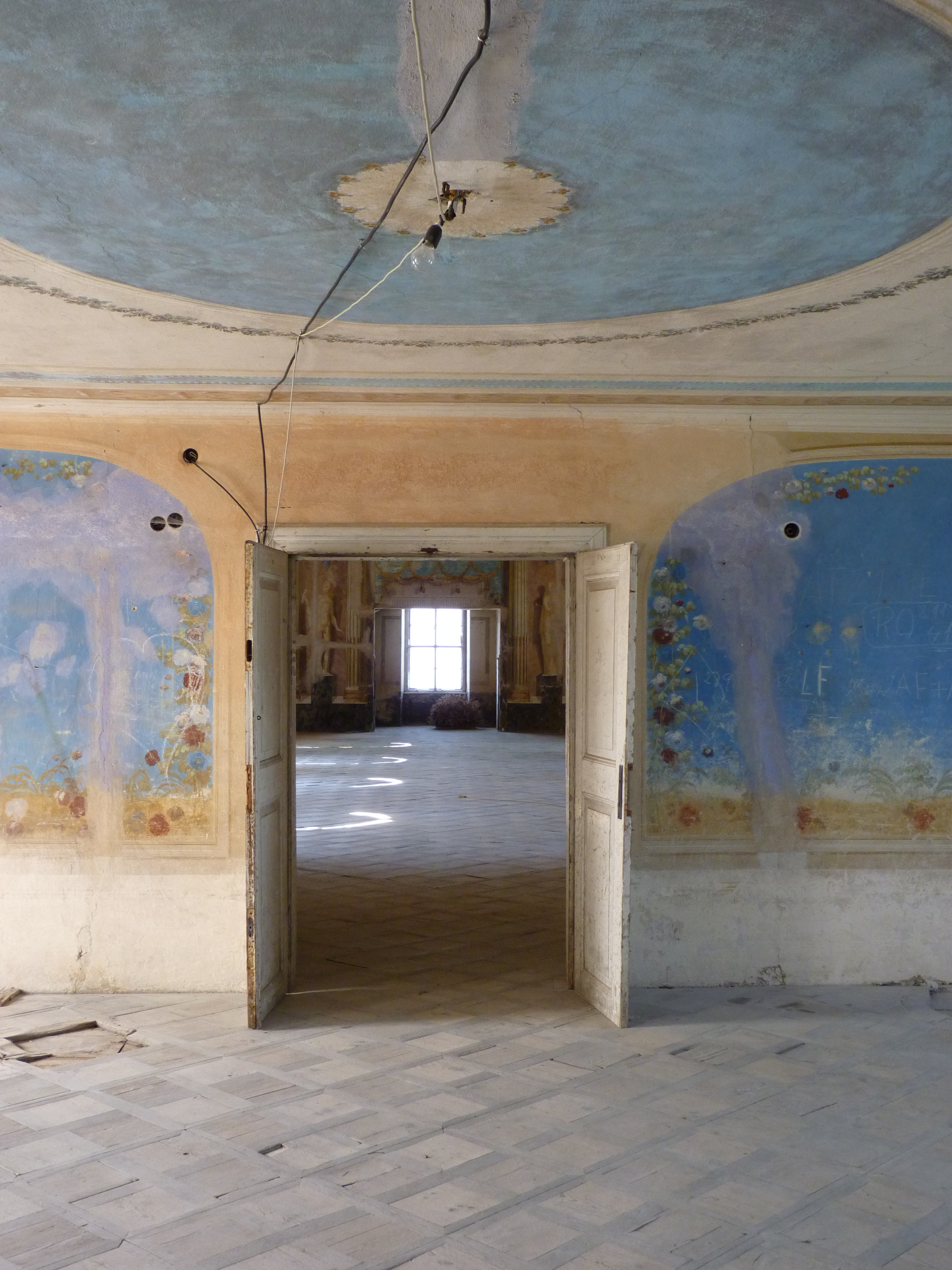 Uherčice Castle, Znojmo District, South Moravian Region, Czech Republic